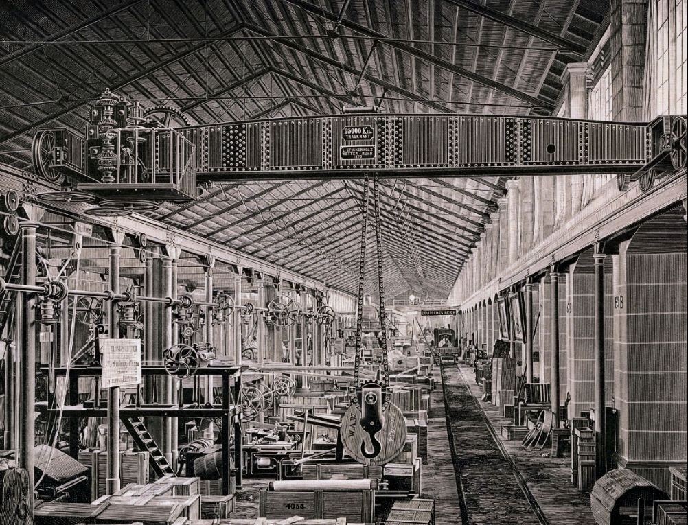 Steam crane circa 1875 by Mechanische Werkstätten Harkort & Co. Now named Demag.